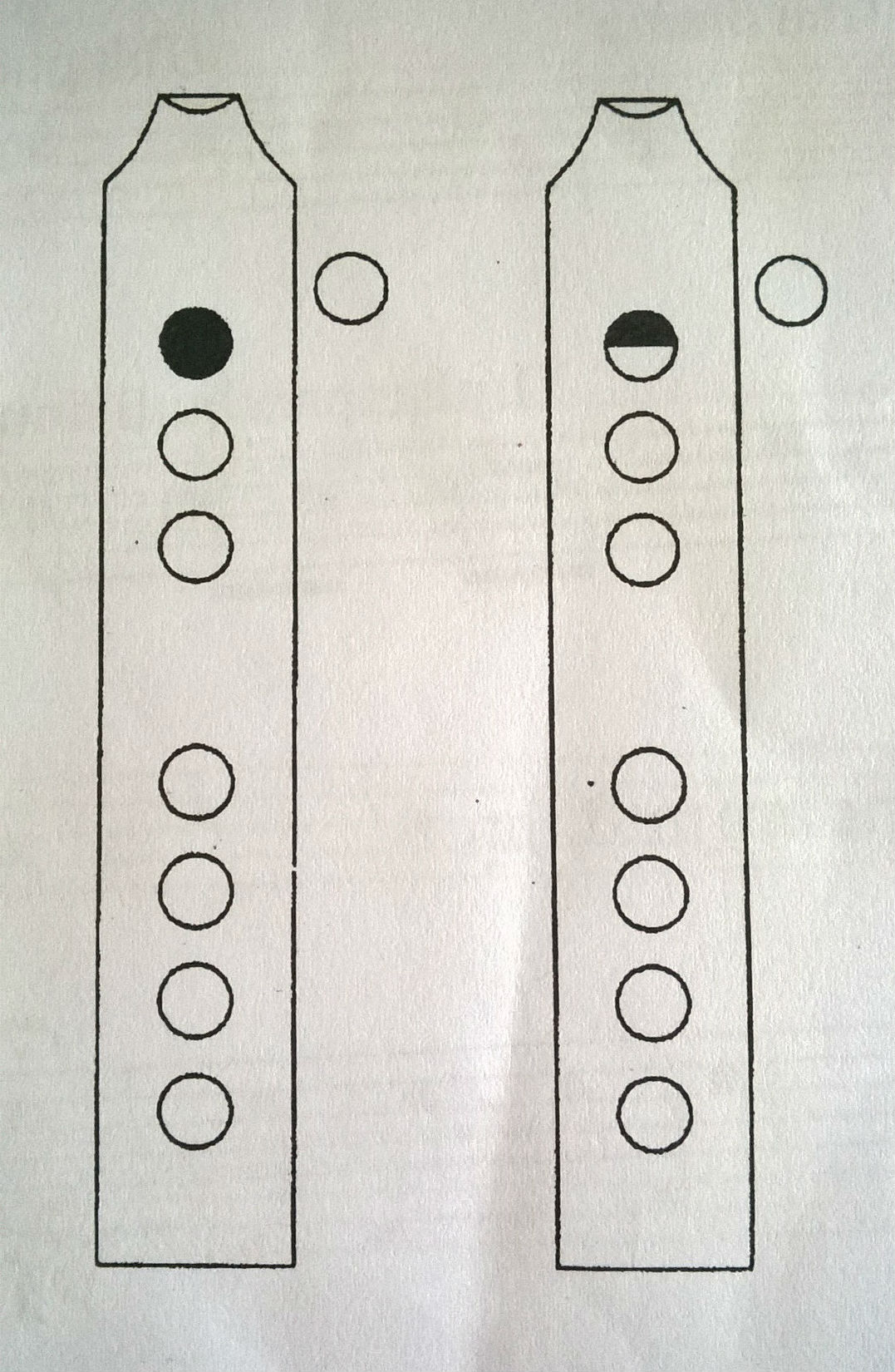 Շվիի մատների դրվածքը